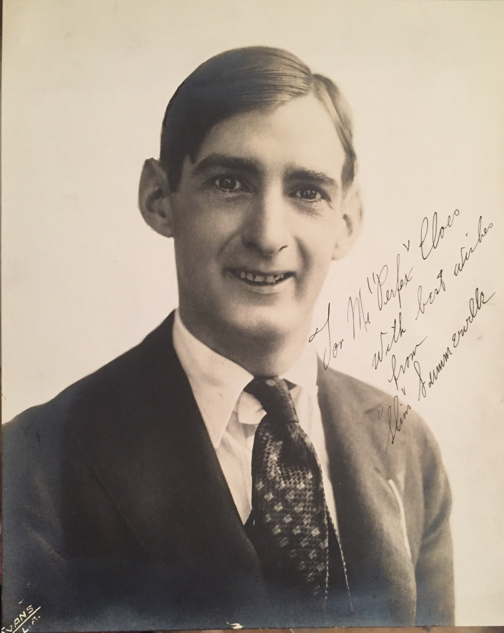 Skim Summerville Signed Publicity Photo Evans Photo Studio Los Angeles